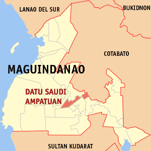 Map of the Maguindanao showing the location of Datu Saudi Ampatuan